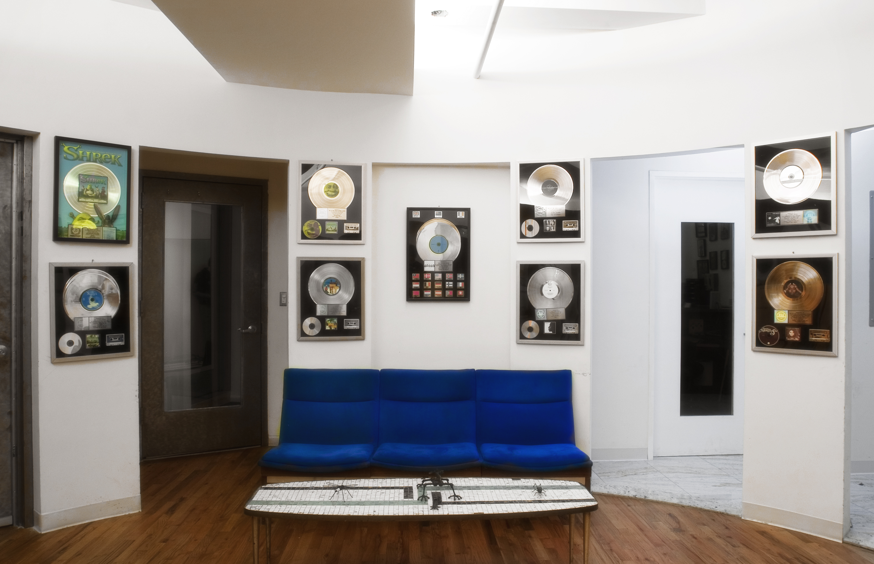 View from the lobby of The Cutting Room Studios in NYC, featuring plaques from The Roots, Whitney Houston, Mary J Blige & more.